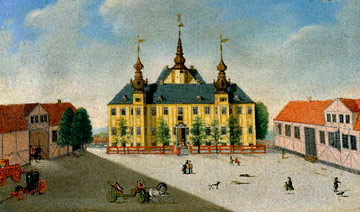 Hægerspris Castle in Denmark